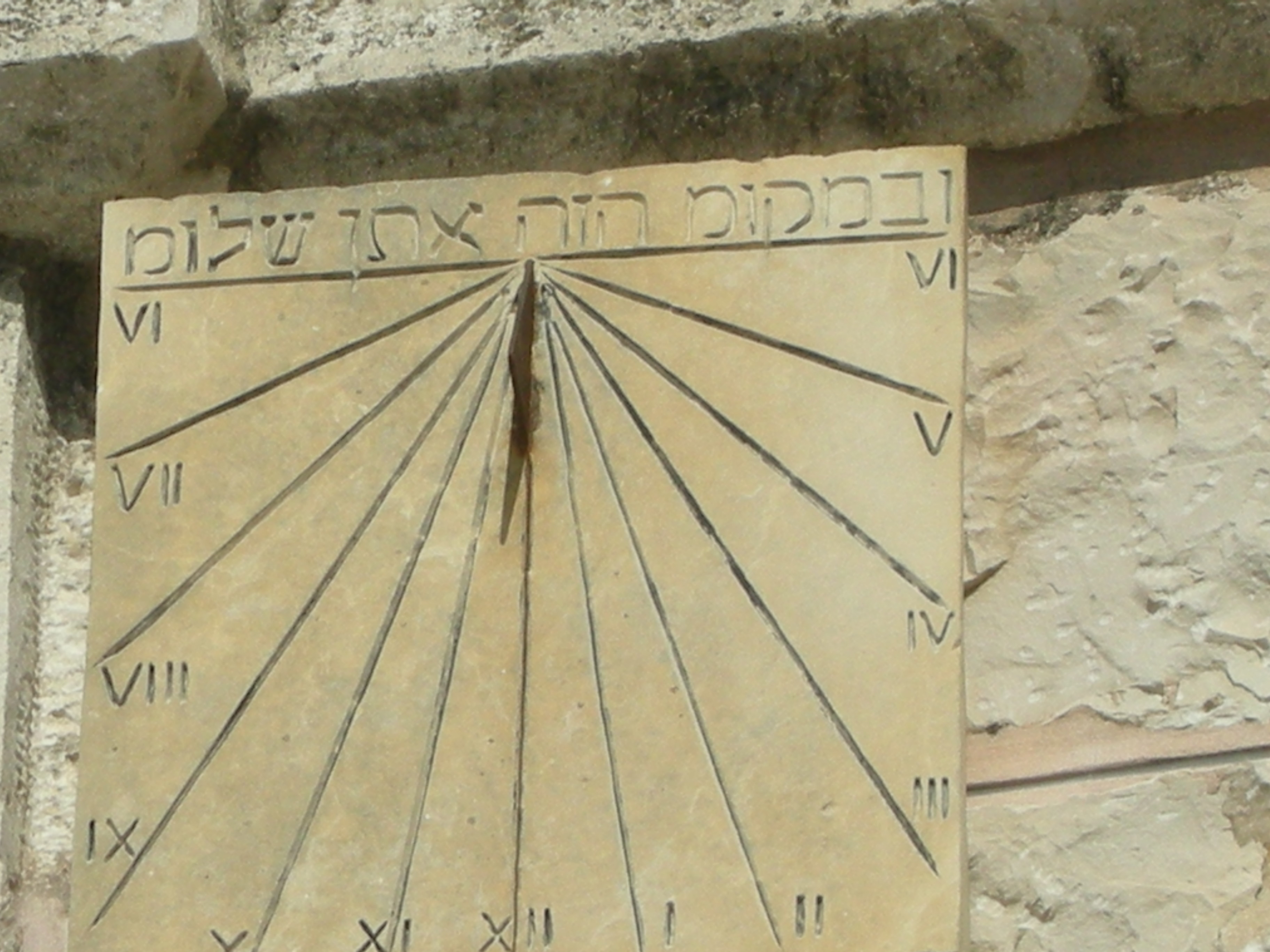 St. John the Baptist in the Mountains - sundial with biblical verse Haggai 2:9